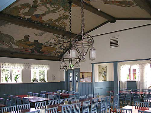 Roofpainting by Simon Gate at Sorangens folkhogskola in Nassjo, Sweden